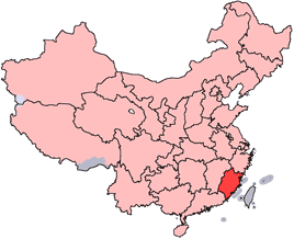 Location of Fujian Province in the People's Republic of China. See Locator maps of province-level divisions of the People's Republic of China for more information.